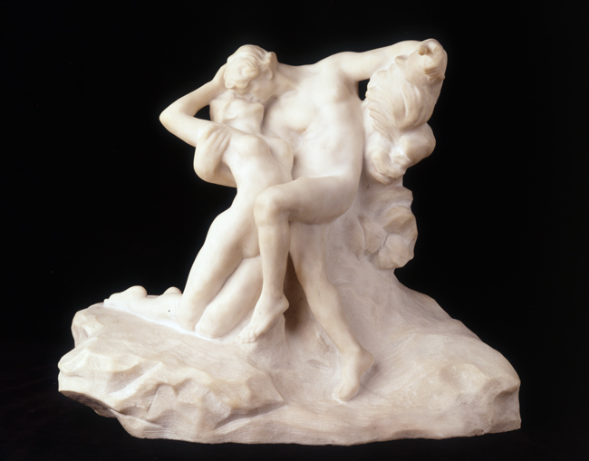 Eternal Spring